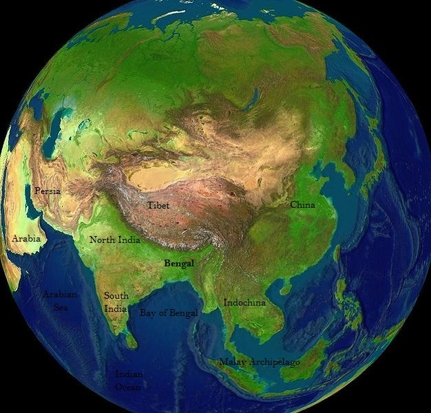 A map of Bengal among historical and cultural regions in Asia